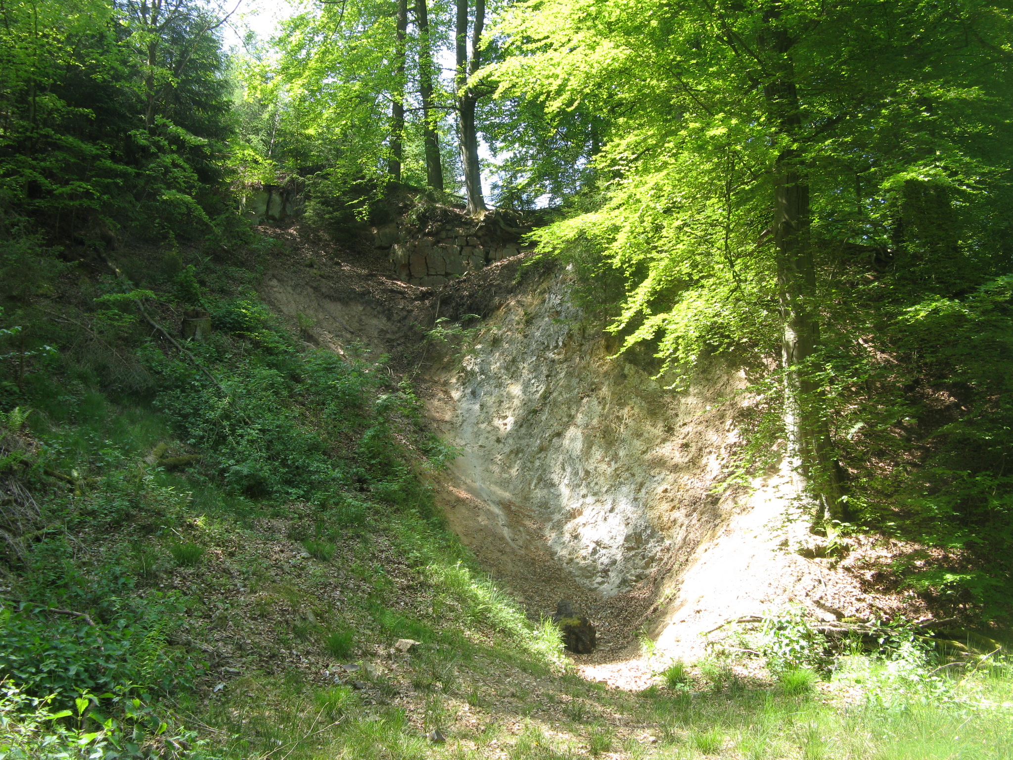 Kasselgrund, "Blue Quarry", Biebergemünd/Germany